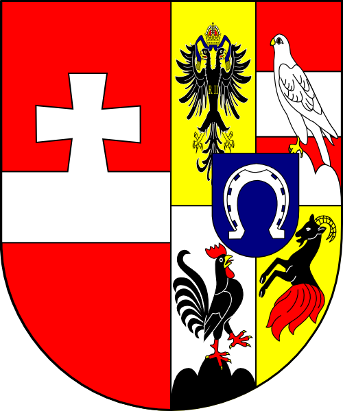 Coat of arms (shield only) of Johann Joseph Cardinal von Trautson zu Falkenstein, archbishop of Vienna (1751 - 1757).